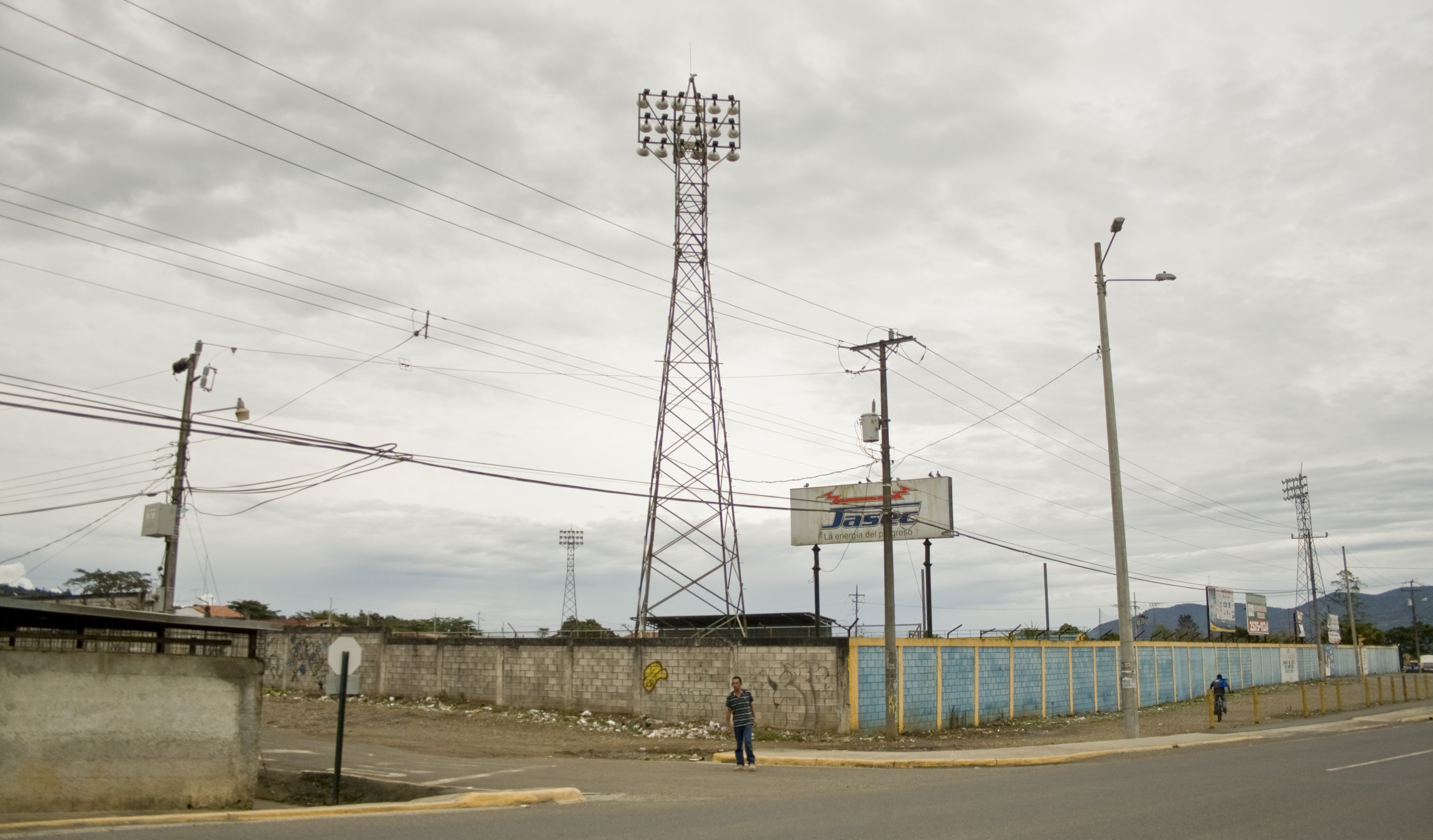 José Joaquín "Quincho" Barquero Stadium. Paraíso, Cartago, Costa Rica.